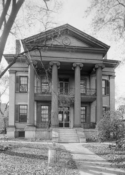 Photograph of the Chatillon-DeMenil House at 3352 DeMenil Place, St. Louis, Missouri, on October 29, 1936 by Theodore LaVack, working for the Historic American Buildings Survey. (HABS MO,96-SALU,17-1)